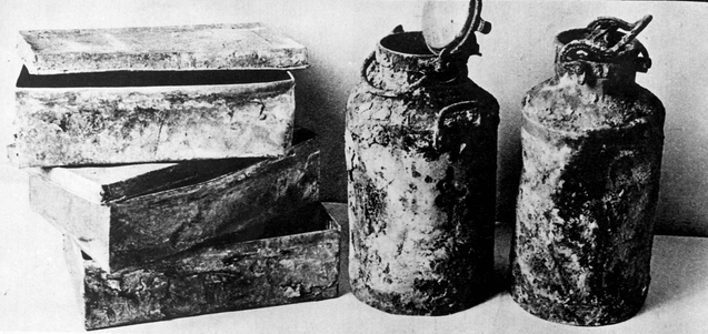 Metal boxes and milk cans used by Oneg Shabbat team (led by Emanuel Ringelblum) to hide first and second part of Warsaw Ghetto archive.